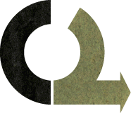 Logo of OpenLeaks.